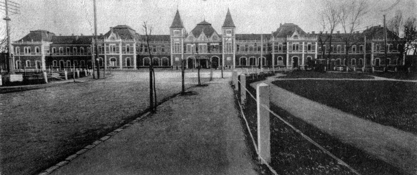 Tiszai Railway Station in Miskolc, Hungary. Photo from 1908.